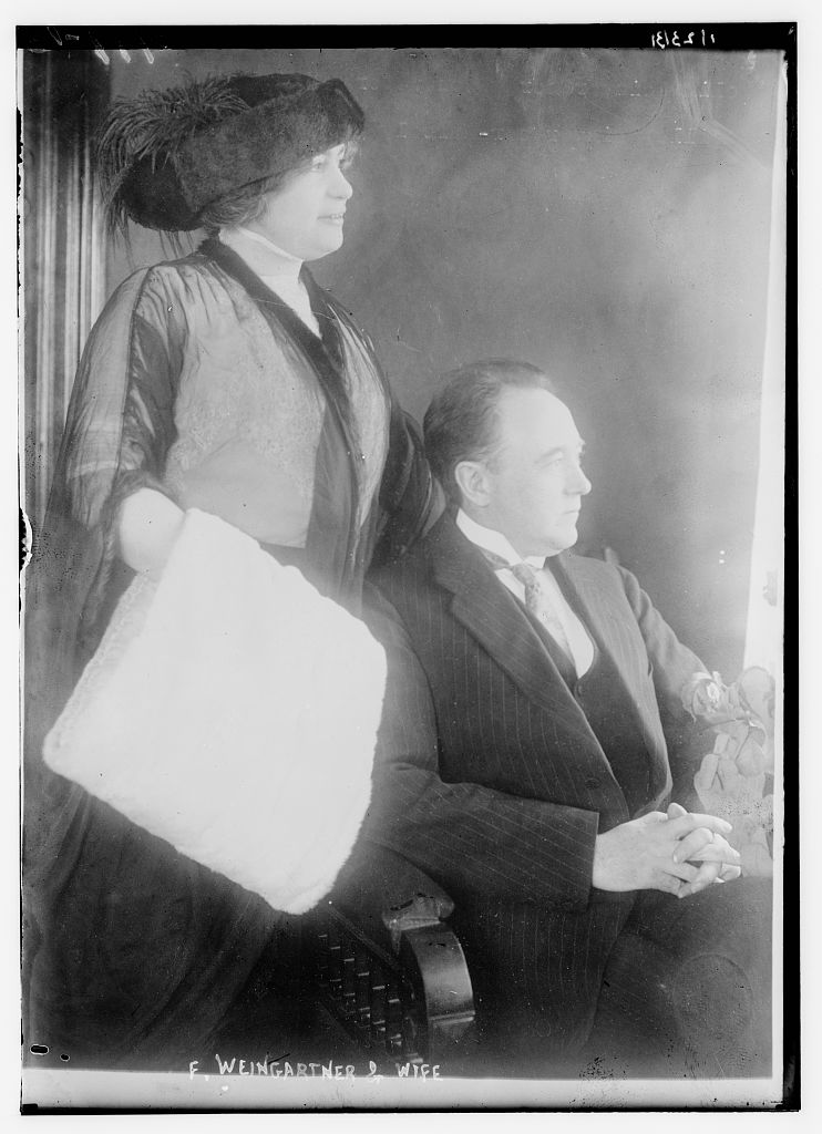 Bain News Service, publisher. Felix Weingartner and wife [between ca. 1910 and ca. 1915] 1 negative : glass ; 5 x 7 in. or smaller. Notes: Title from unverified data provided by the Bain News Service on the negatives or caption cards. Forms part of: George Grantham Bain Collection (Library of Congress). Format: Glass negatives. Repository: Library of Congress, Prints and Photographs Division, Washington, D.C. 20540 USA, General information about the Bain Collection is available at Persistent URL: Call Number: LC-B2- 2999-13